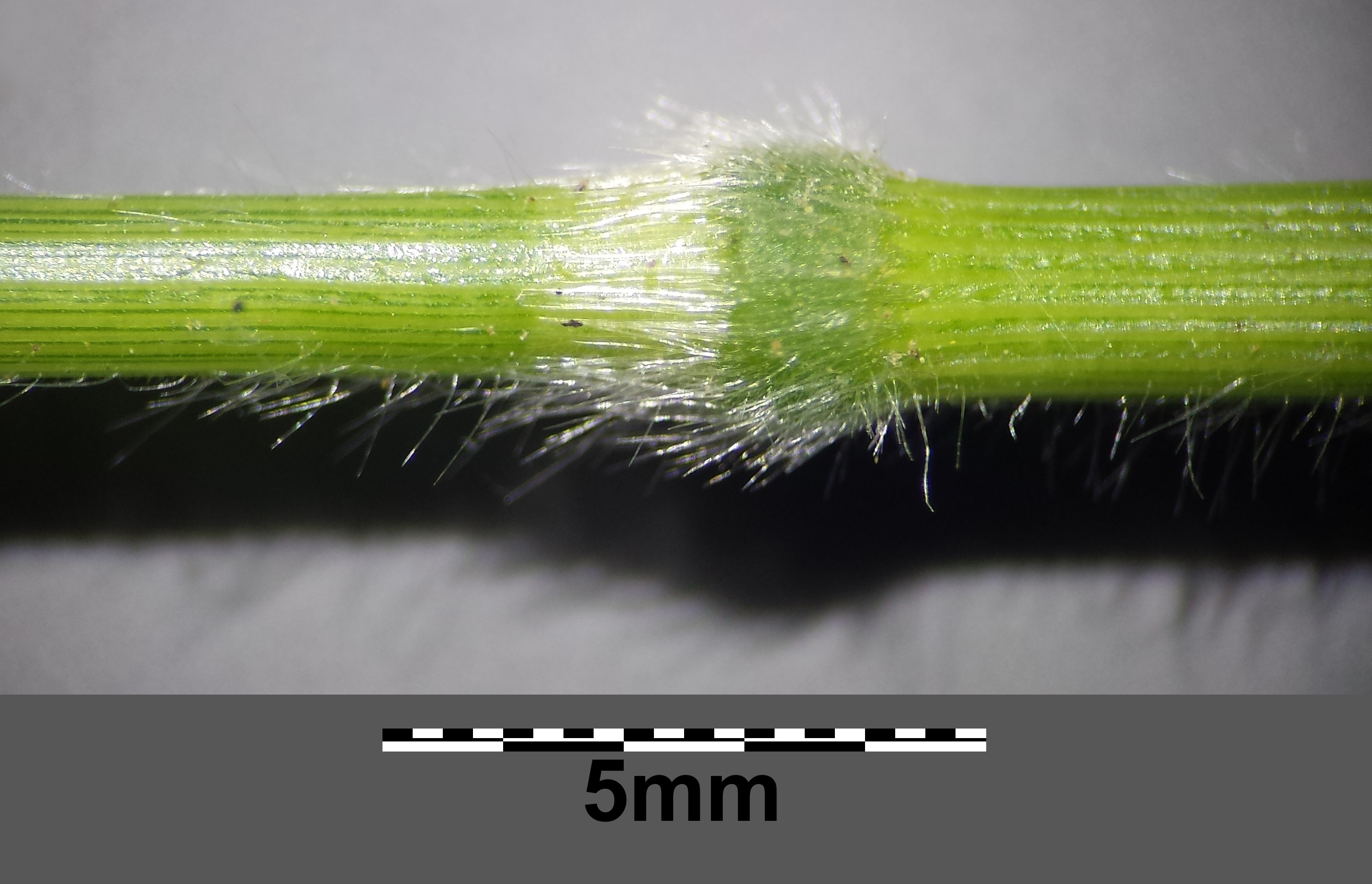 Stem with hairy node Taxonym: Brachypodium sylvaticum (subsp. sylvaticum) ss Fischer et al. EfÖLS 2008 ISBN 978-3-85474-187-9 Location: Kalte Stube near Puch, district Hollabrunn, Lower Austria - ca. 290 m a.s.l. Habitat: path within a wood